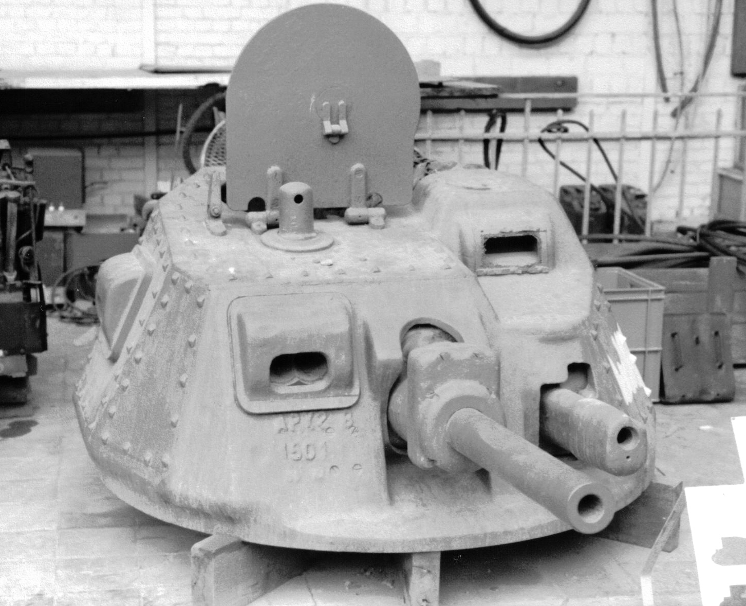 Turret of the AMC 35, shown in the Army Museum of Brussels